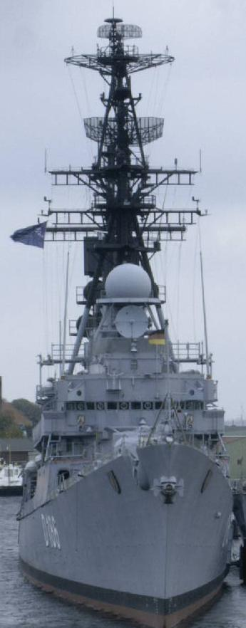 Destroyer "Mölders" of the German Navy, decommissioned and moored in the Navy Museum at Wilhelmshaven for display. Own photo, taken 22 October 2005